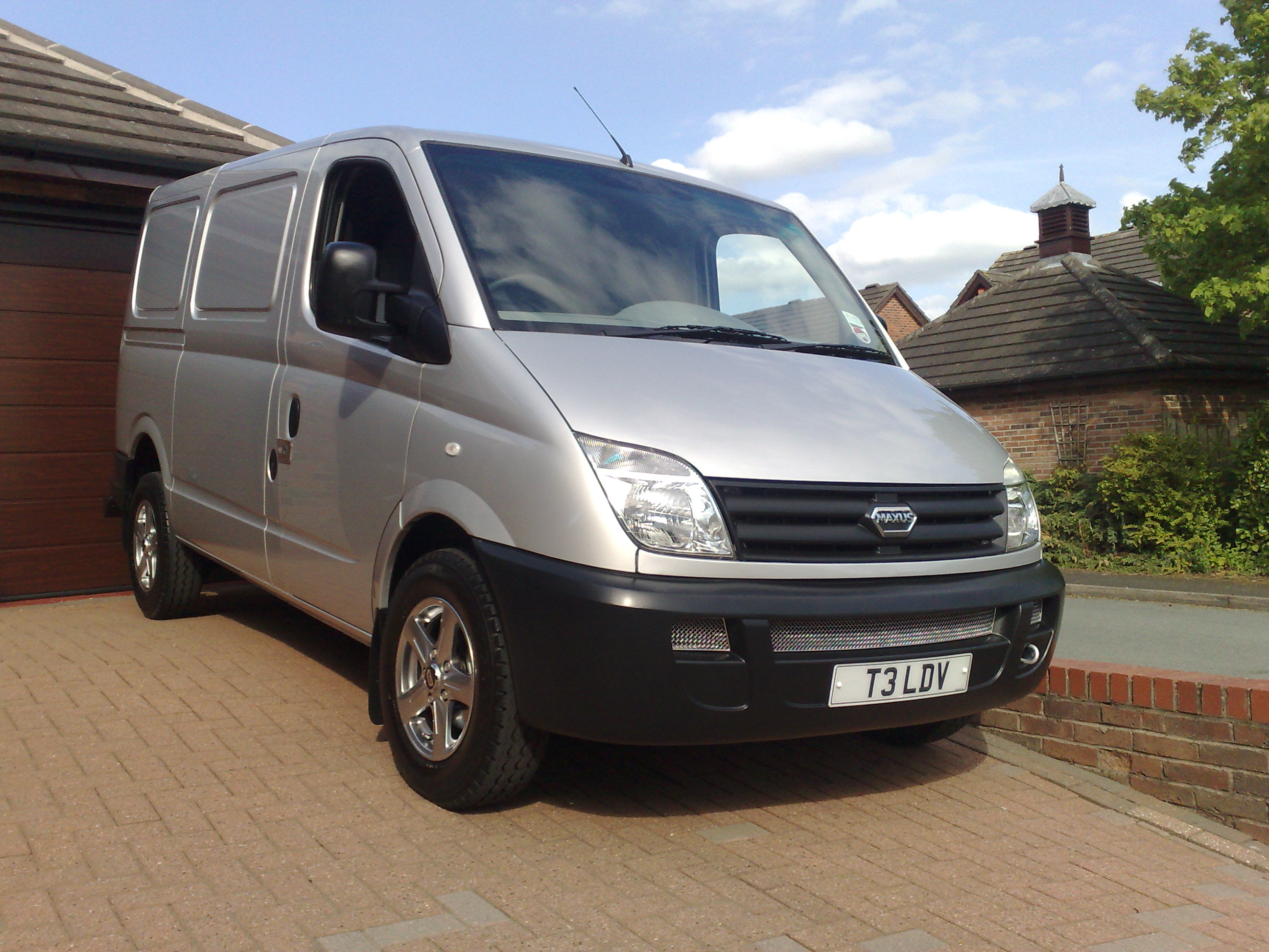 2009 LDV MAXUS. 2.8T Fitted with R485 VM Motori 2.5 Litre Turbo charged 120 diesel engine